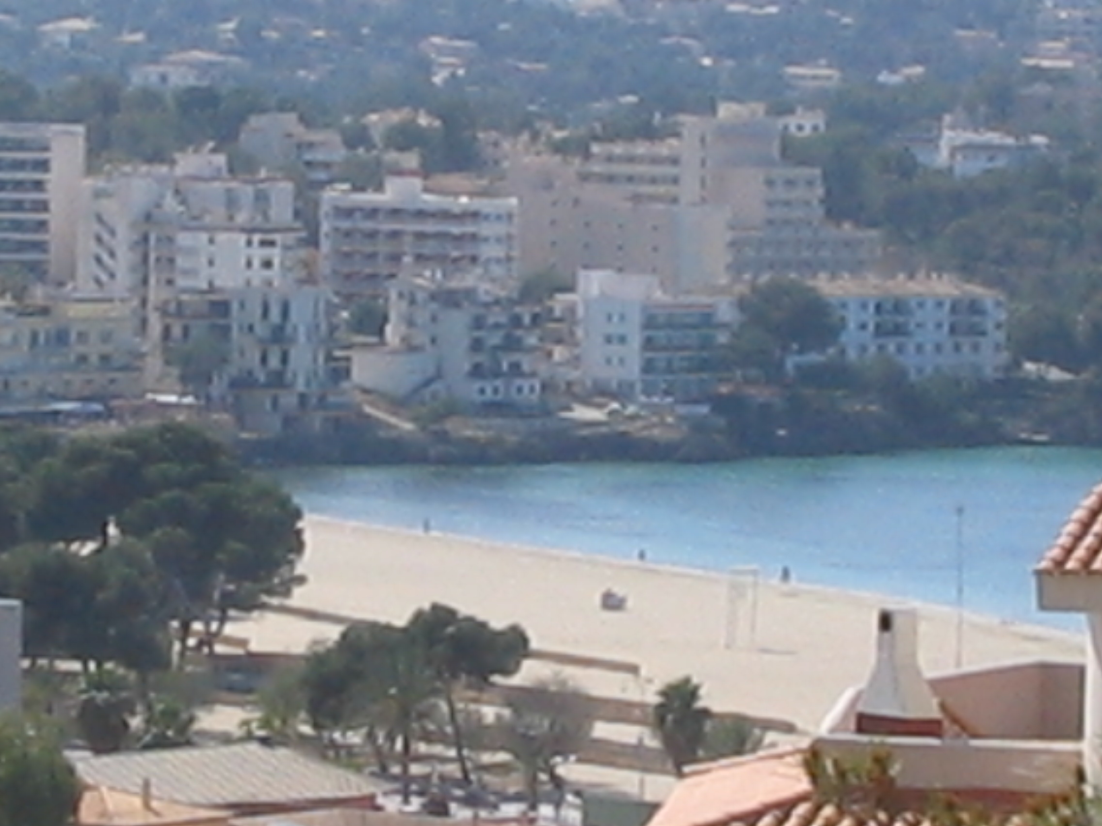 Holiday resort called Santa Ponsa in Mallorca, Spain.